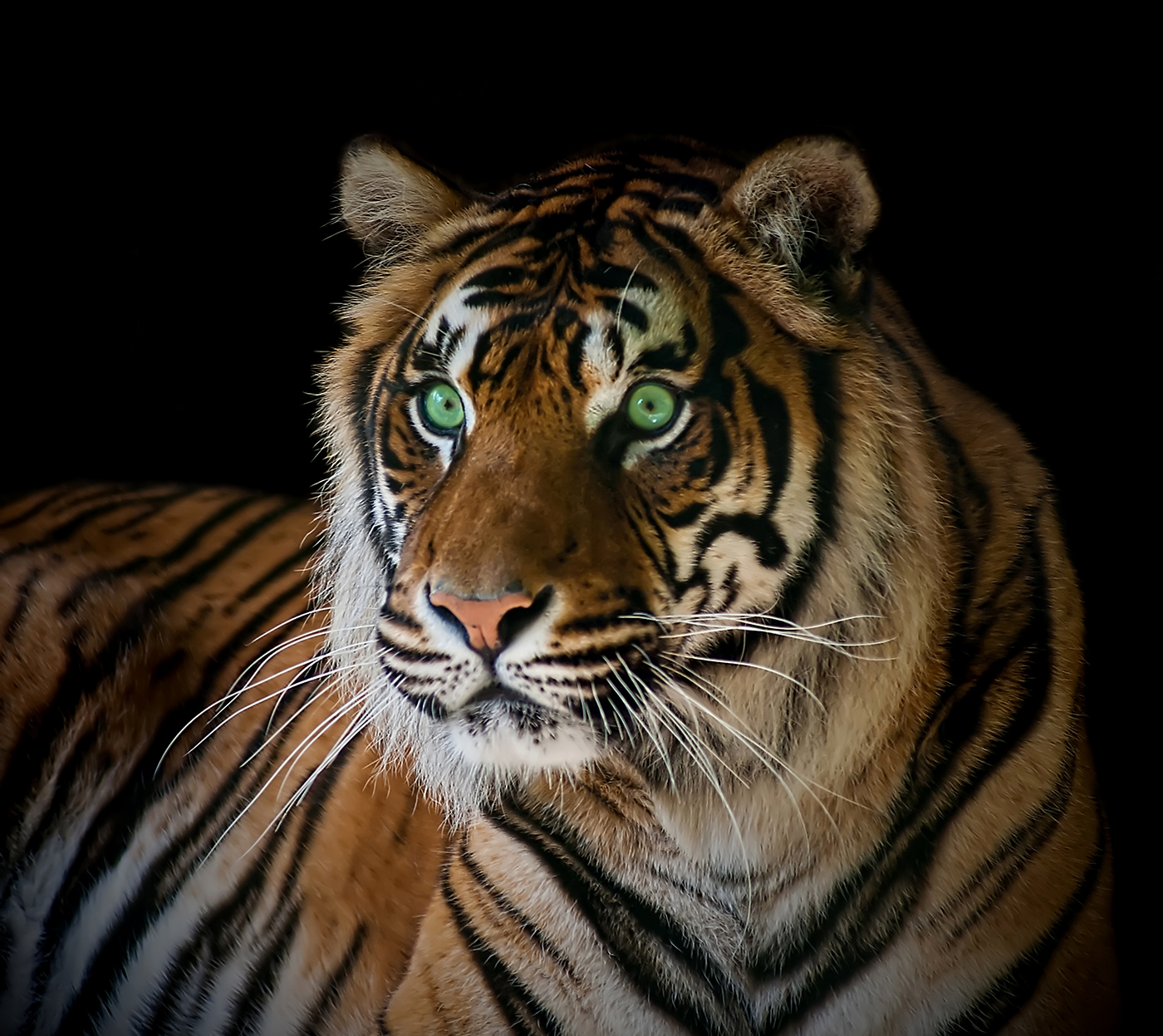 Just bored and messing around